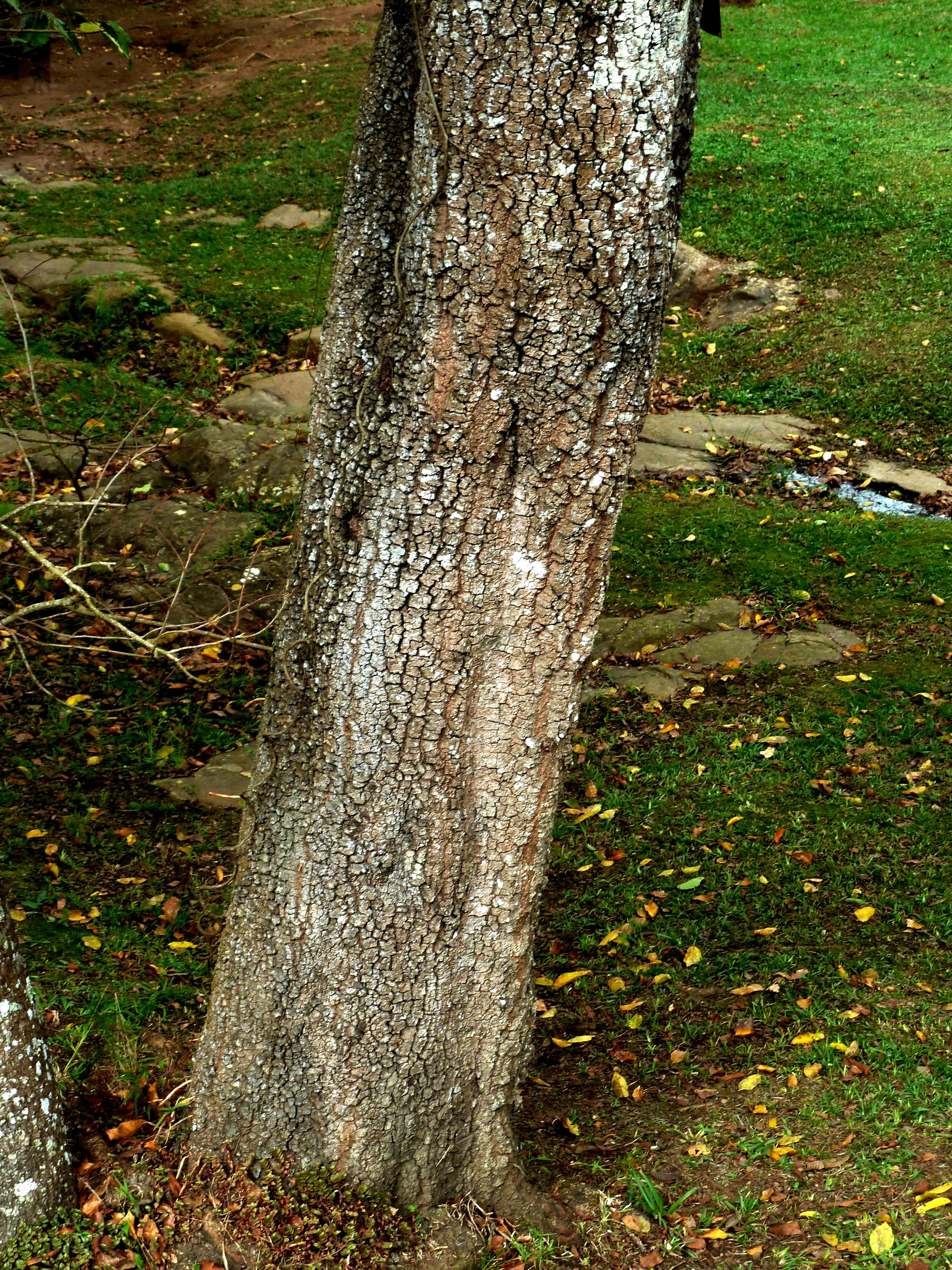 Trunk of a Coastal goldenleaf in the Kloof Falls picnic site in Krantzkloof Nature Reserve, KwaZulu-Natal